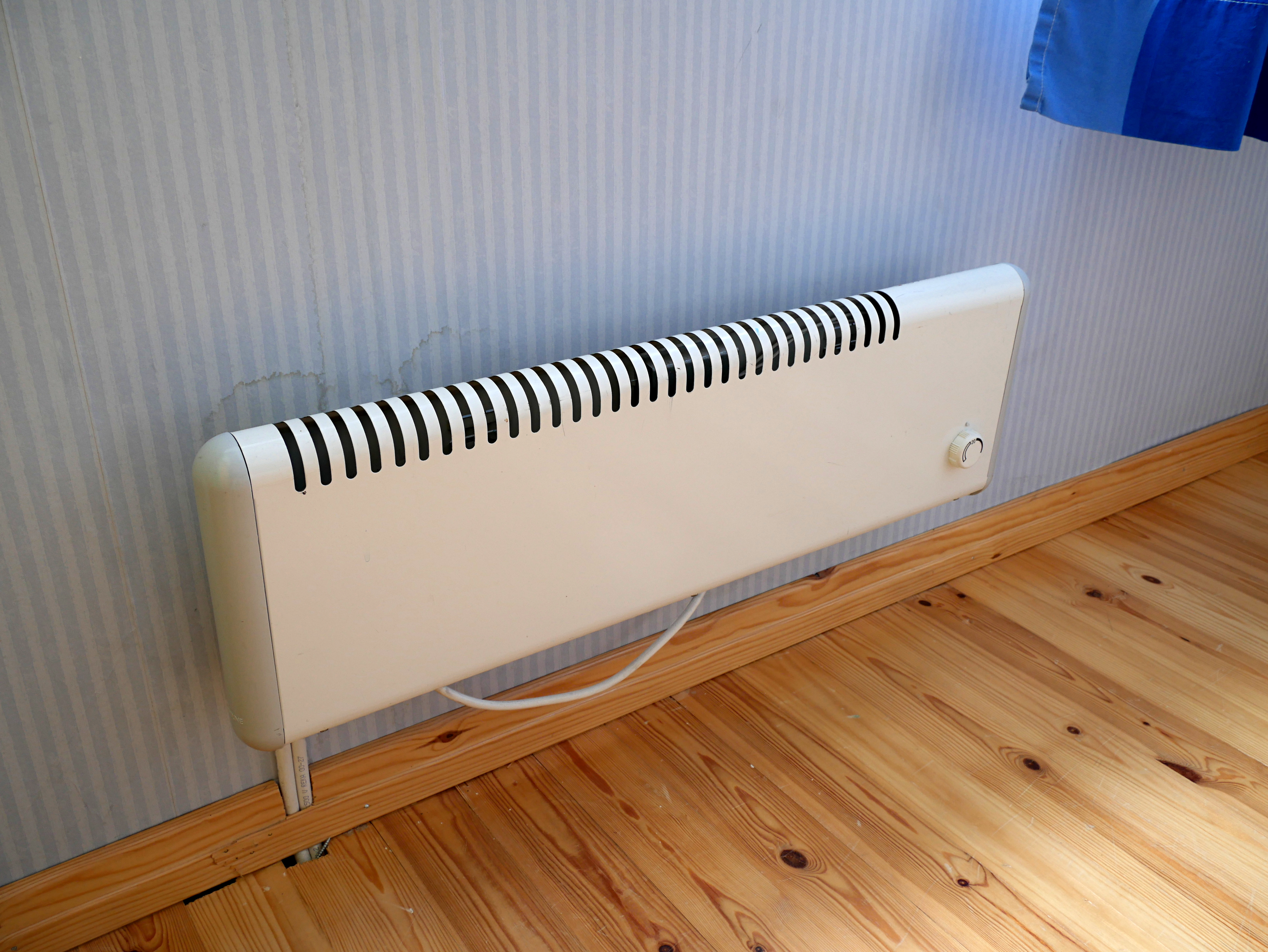 White electric radiator.